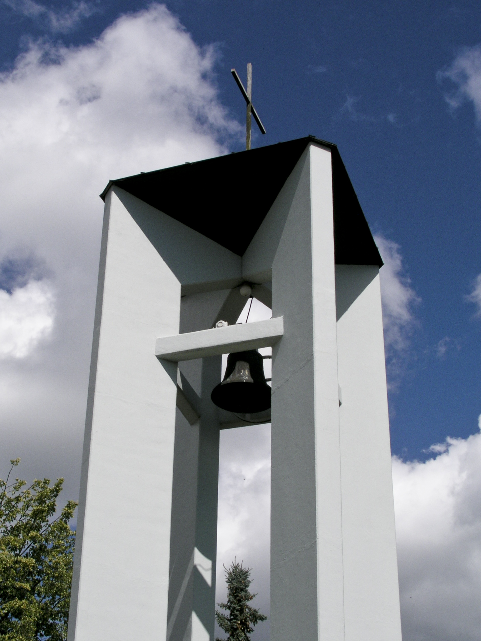 Allhelgonakyrkan, Ljungsbro, Diocese of Linköping, Linköpings kommun, Sweden. Church bell